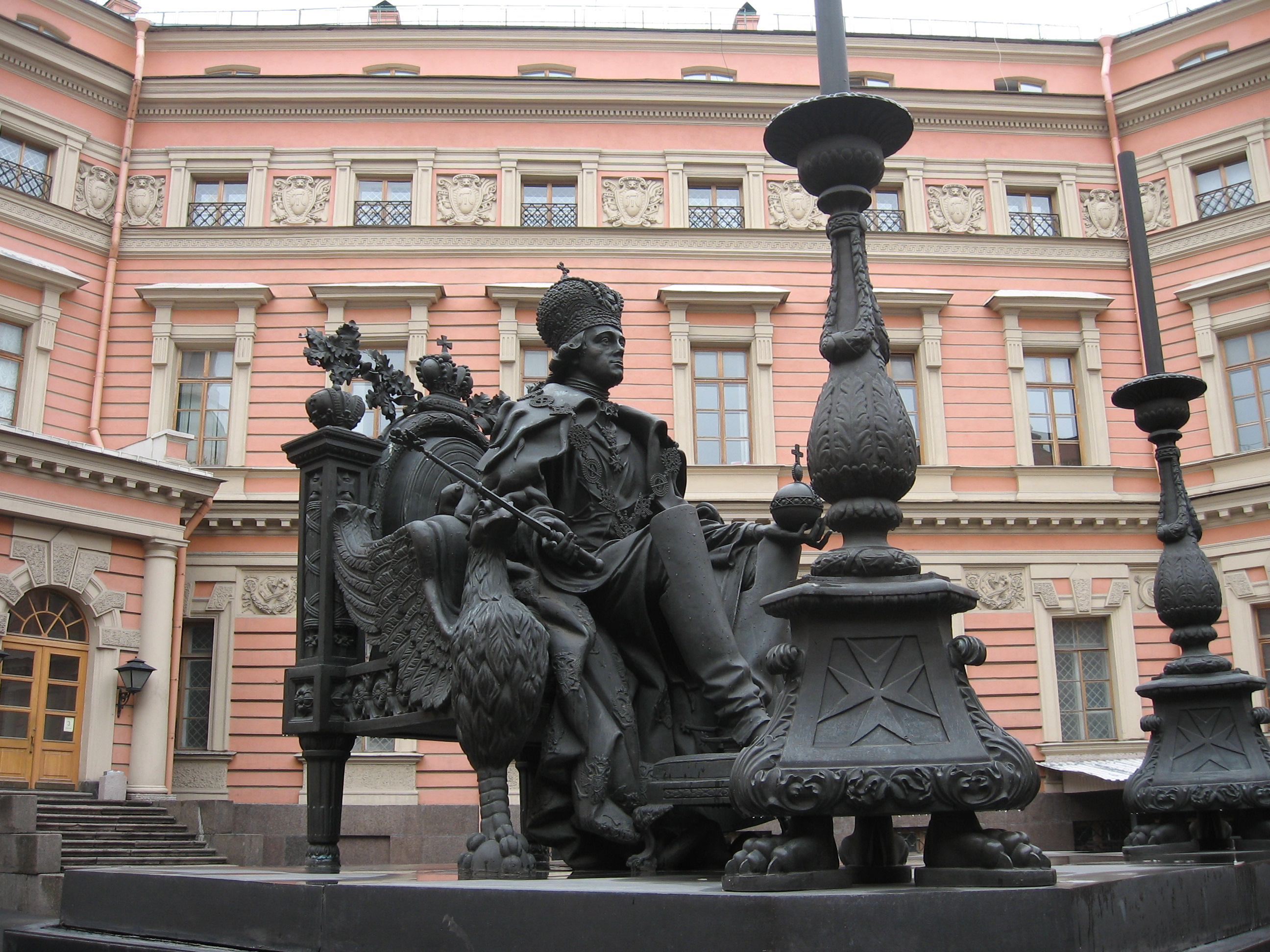 Monument to the honor of Paul I of Russia in the courtyard of St. Michael's Castle